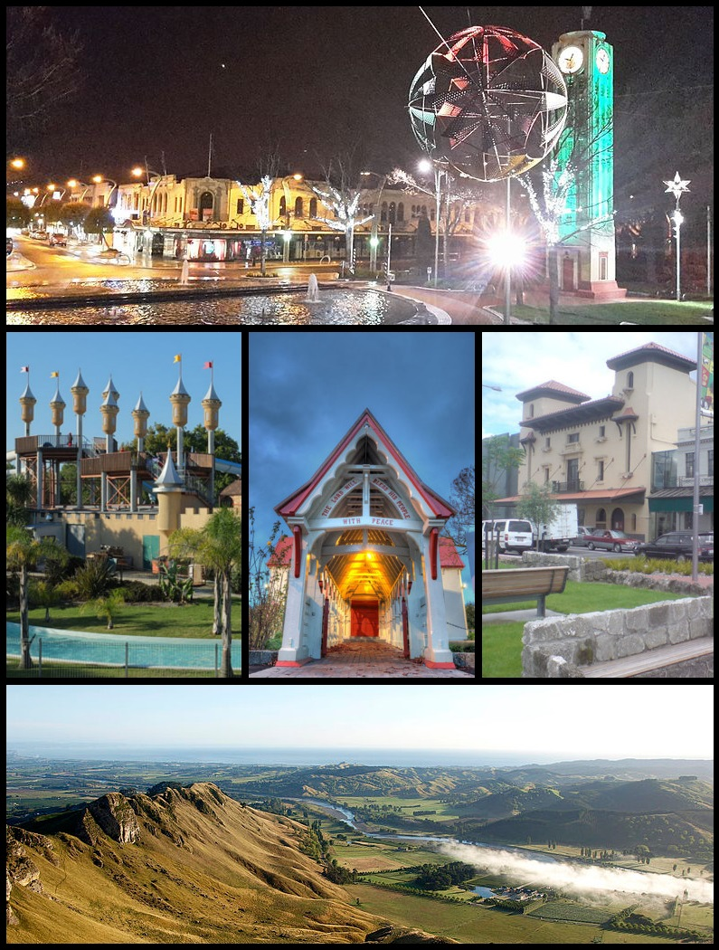 Hastings Infobox Pic Montage, New Zealand